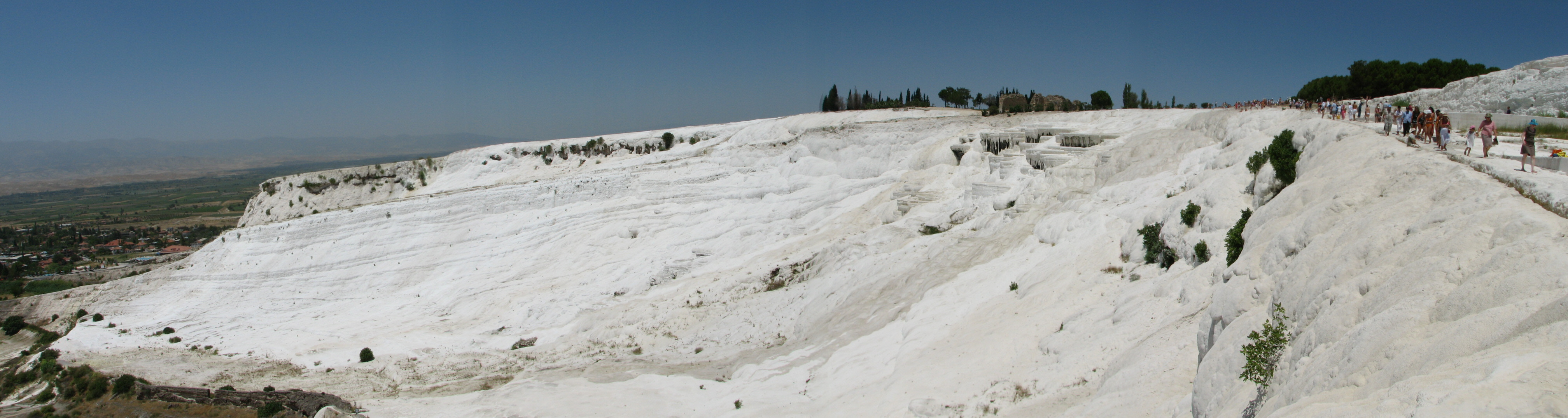 Panorama Pamukkale